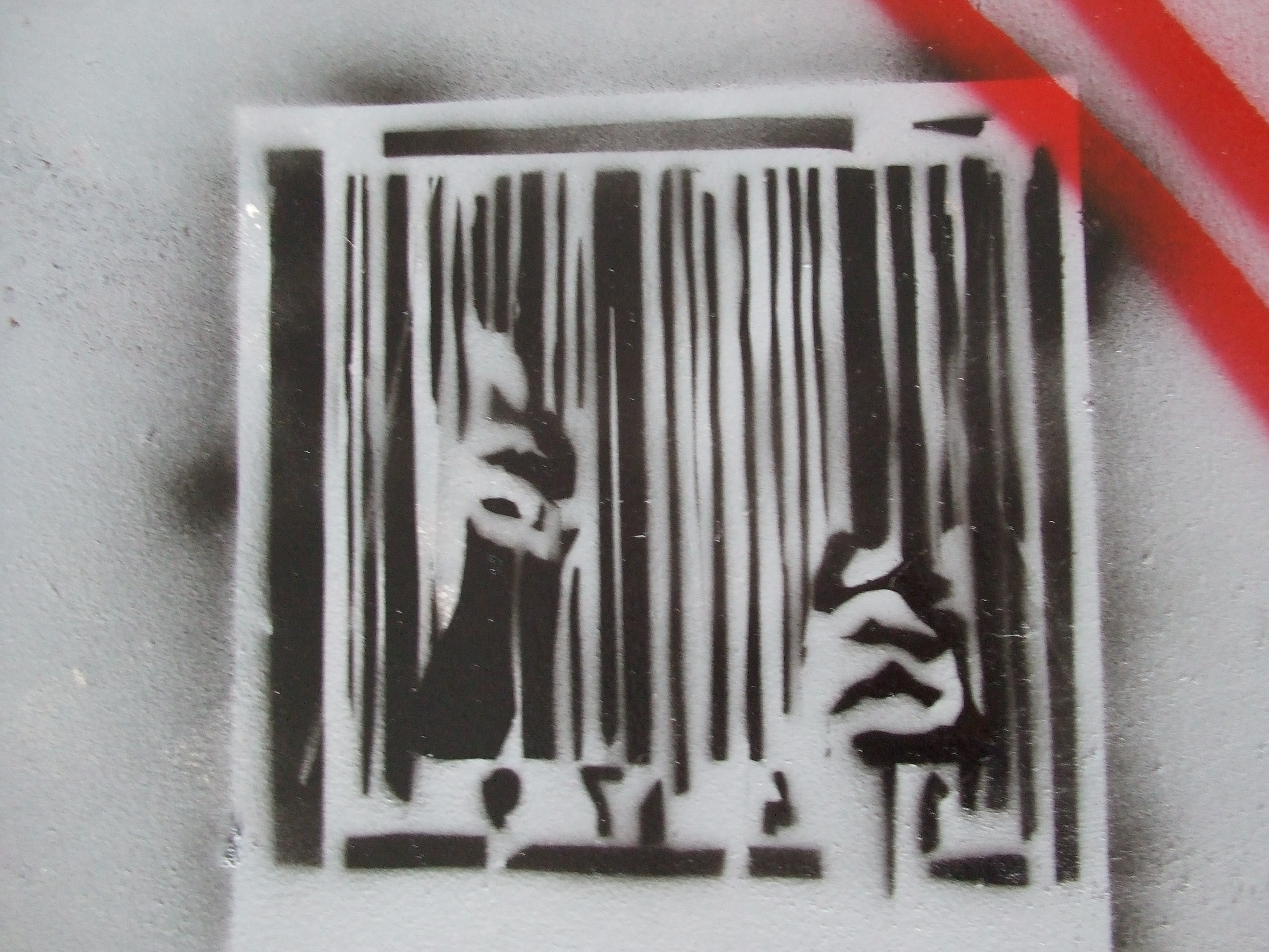 A piece of Stencil Art.